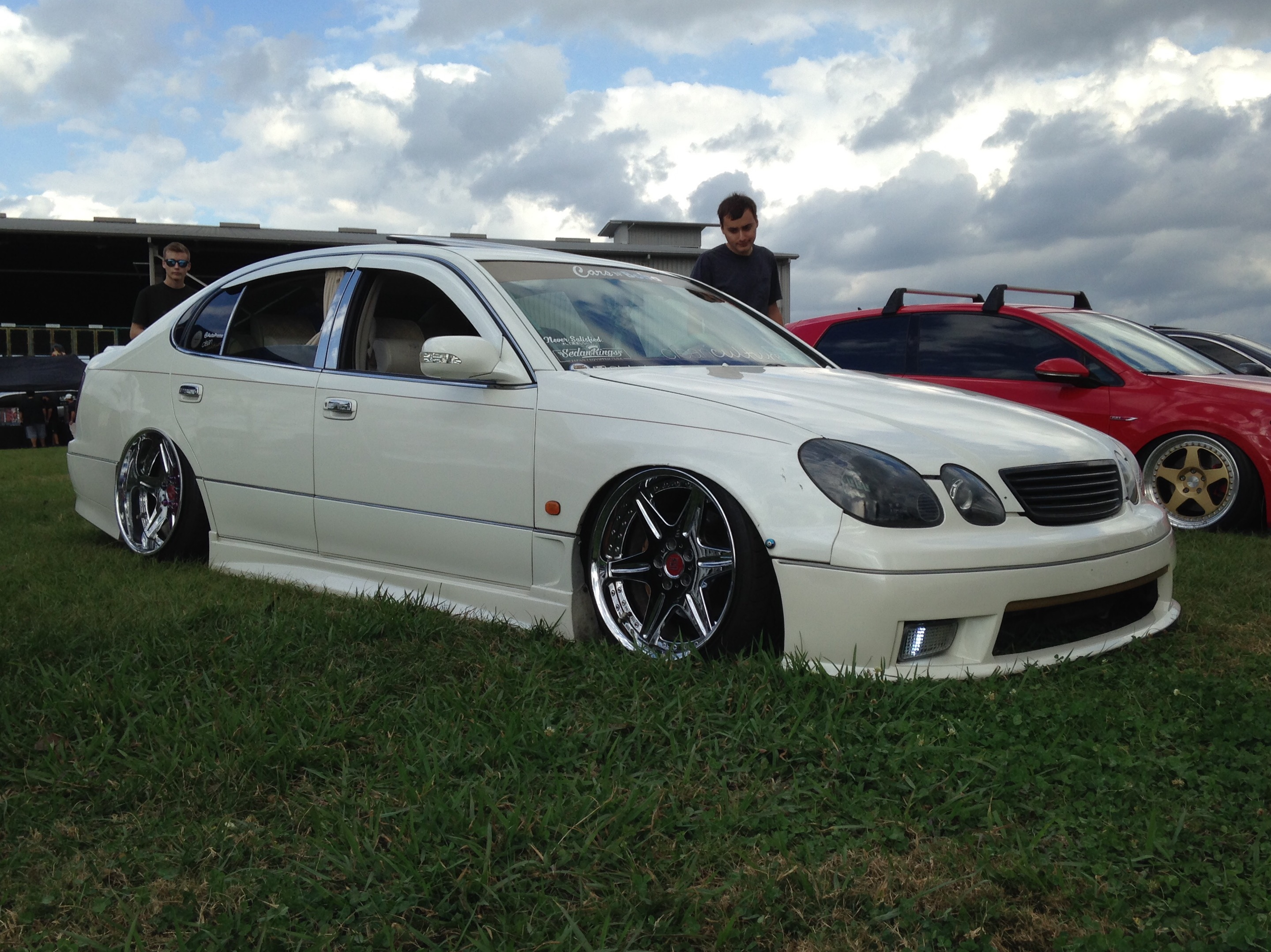 VIP style Lexus GS. Picture taken at Stancewars, Houston in 2017